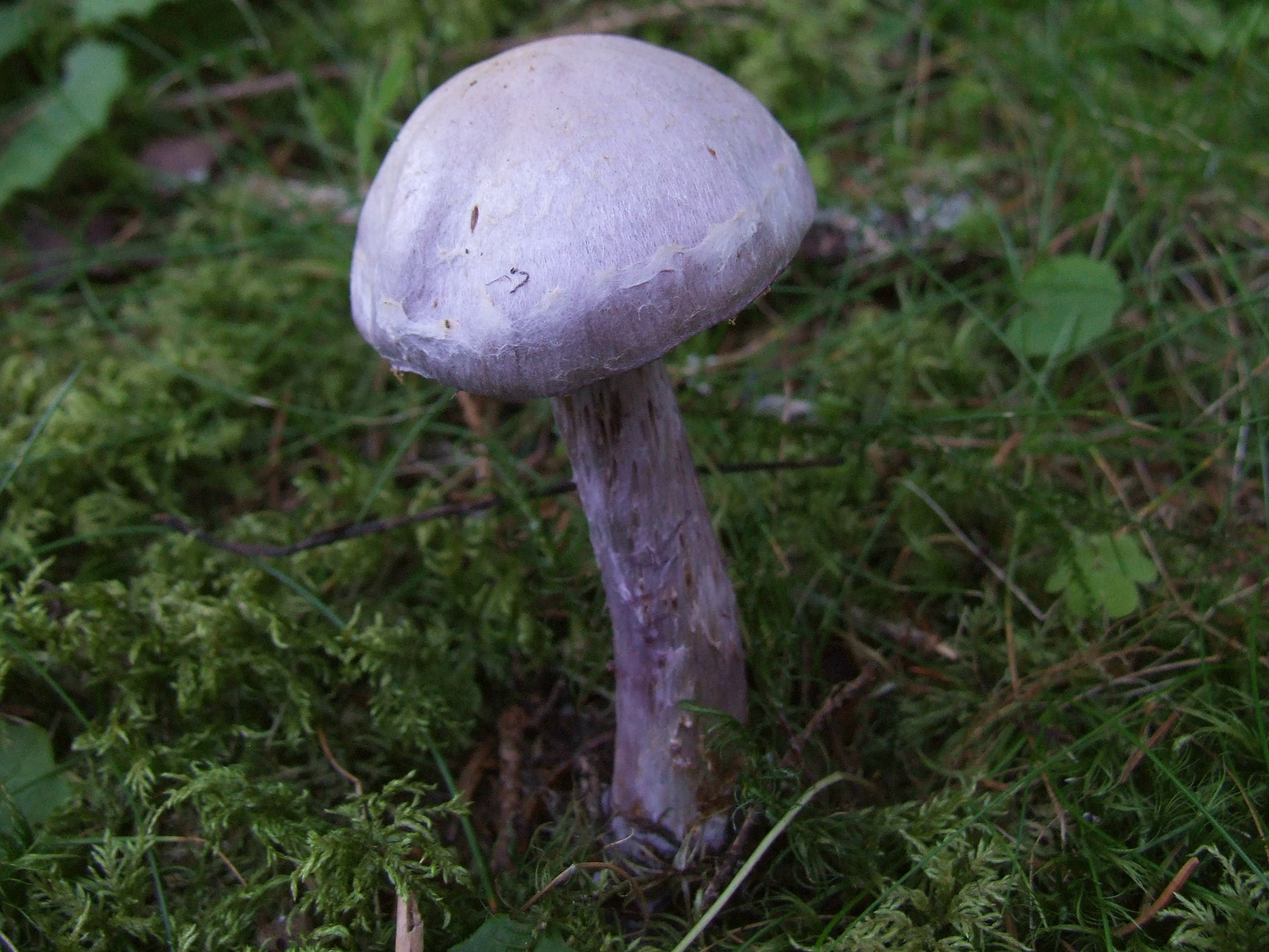 Cortinarius agathosmus (habitat:Tatra Mountains, Kieżmarska Valley)